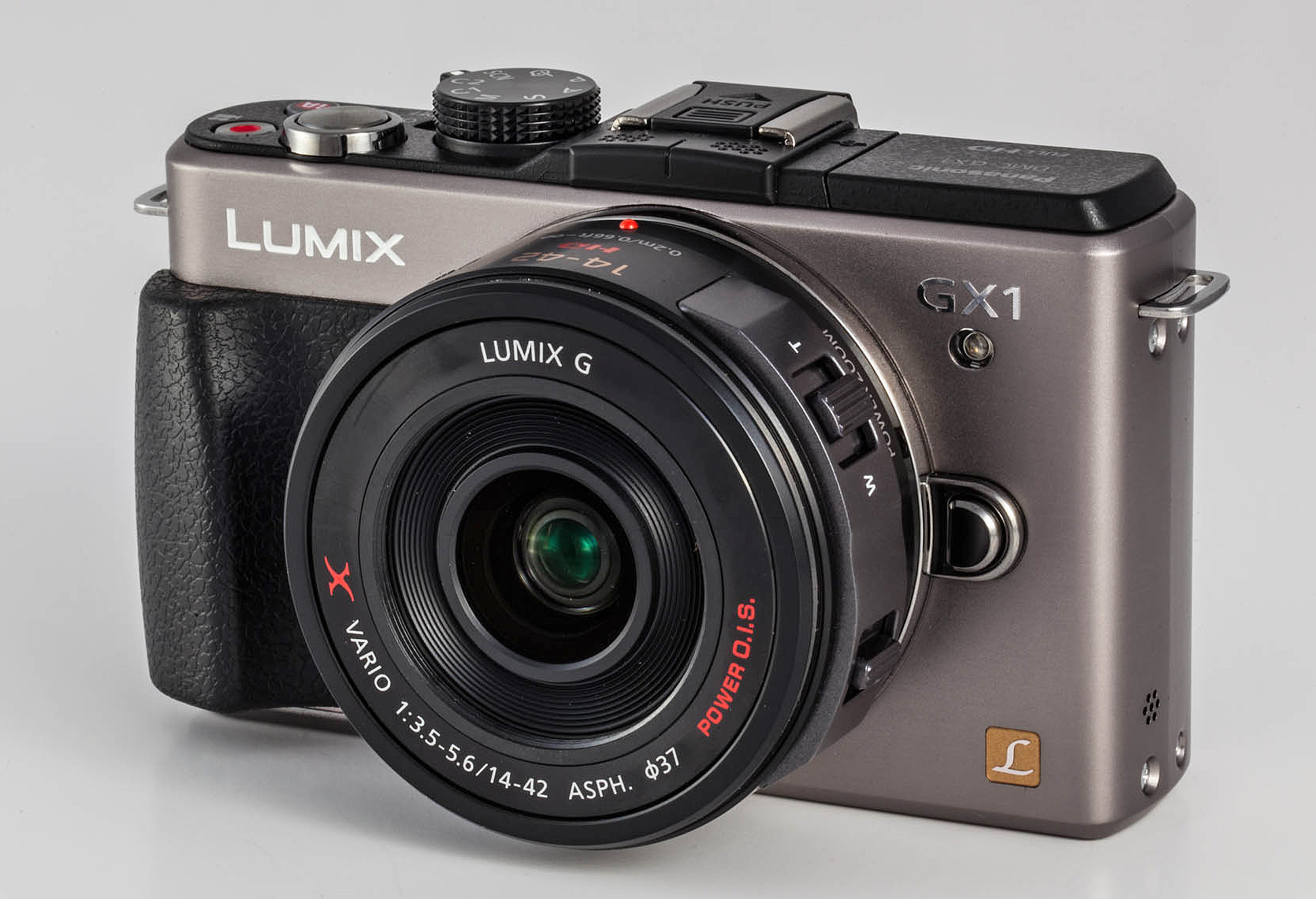 Panasonic Lumix DMC-GX1 with optional 14-42mm Power O.I.S lens.